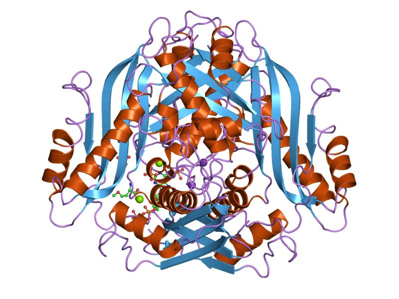 Cartoon representation of the molecular structure of protein registered with 1o92 code.